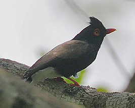 An adult bird, part of a highly mobile mixed-species feeding flock in coastal Kenya's Arabuko-Sokoke Forest.